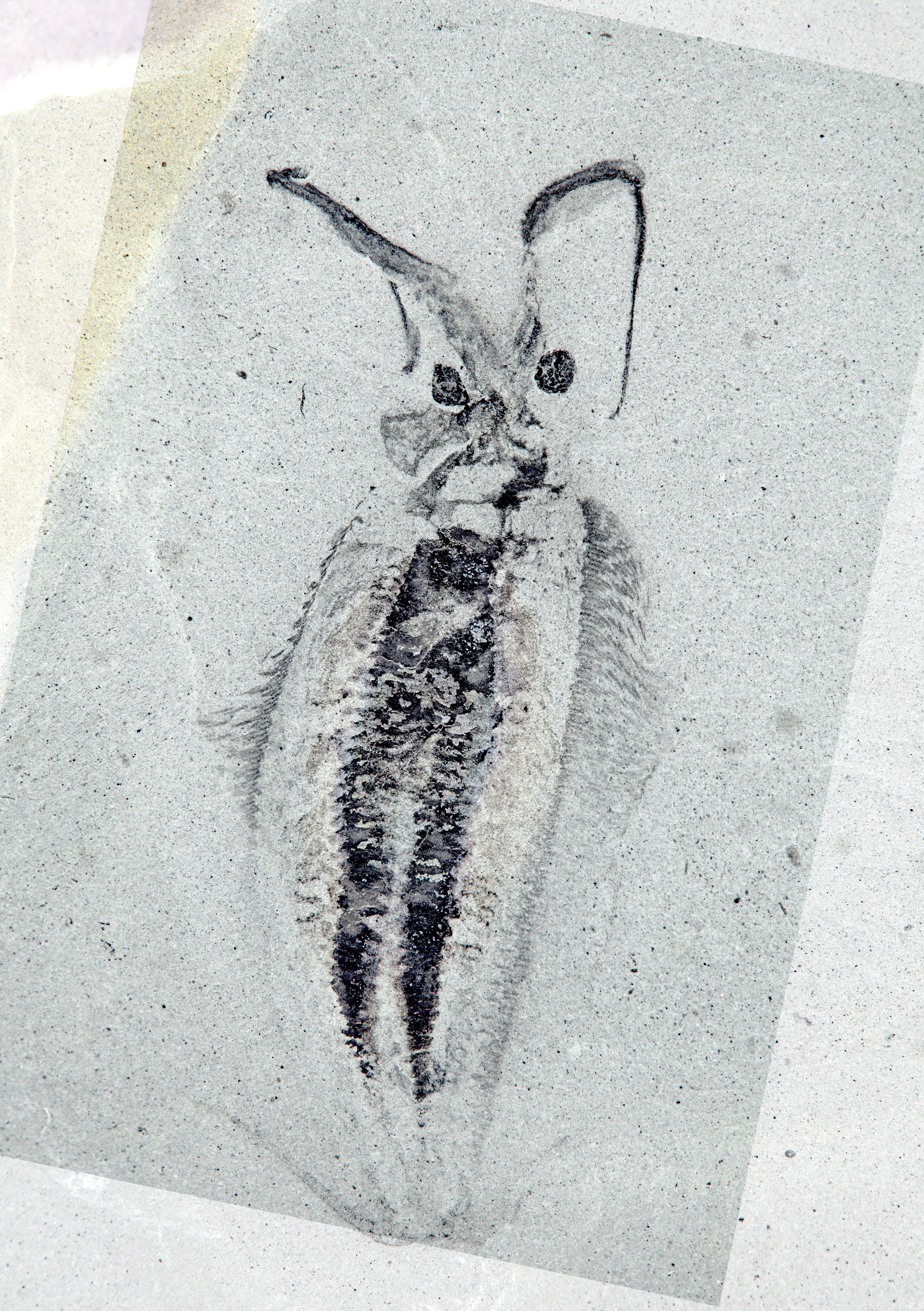 ROM 60079 – Nectocaris pteryx from the Burgess Shale. ROM 60079, composite interference image of part and counterpart, showing coarse stripes and fine striations.